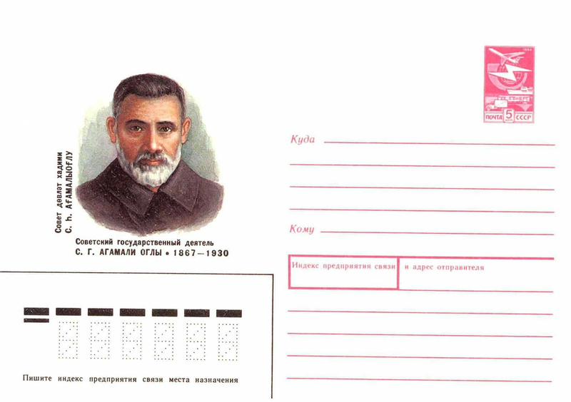 1987 Soviet envelope featuring Bolshevik Samad aga Agamalioglu.